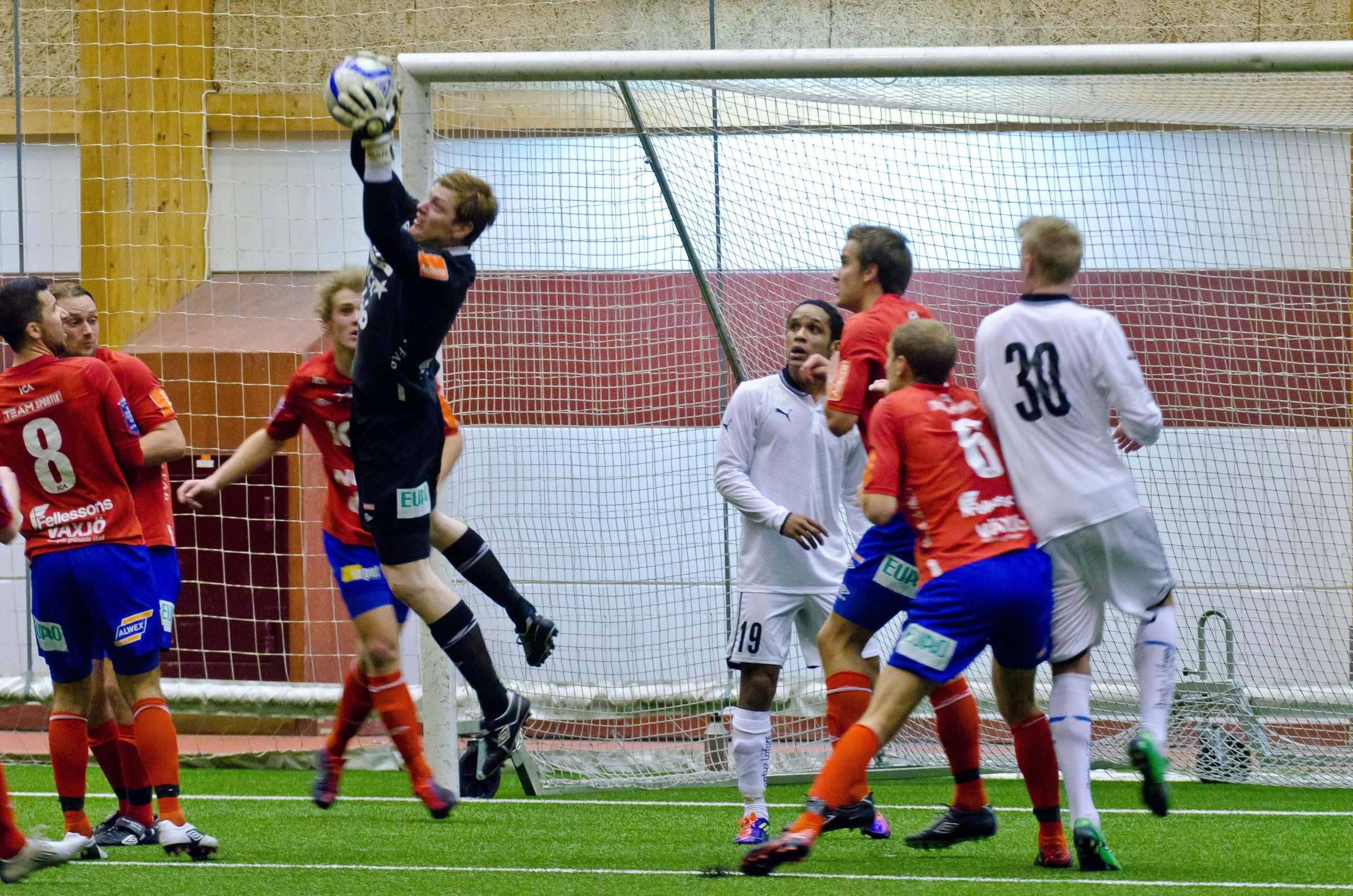 Swedish goalkeeper Joakim Wulff gripping the ball in his team Östers first 2012 pre-season game, a 3-2 victory over Kalmar FF.